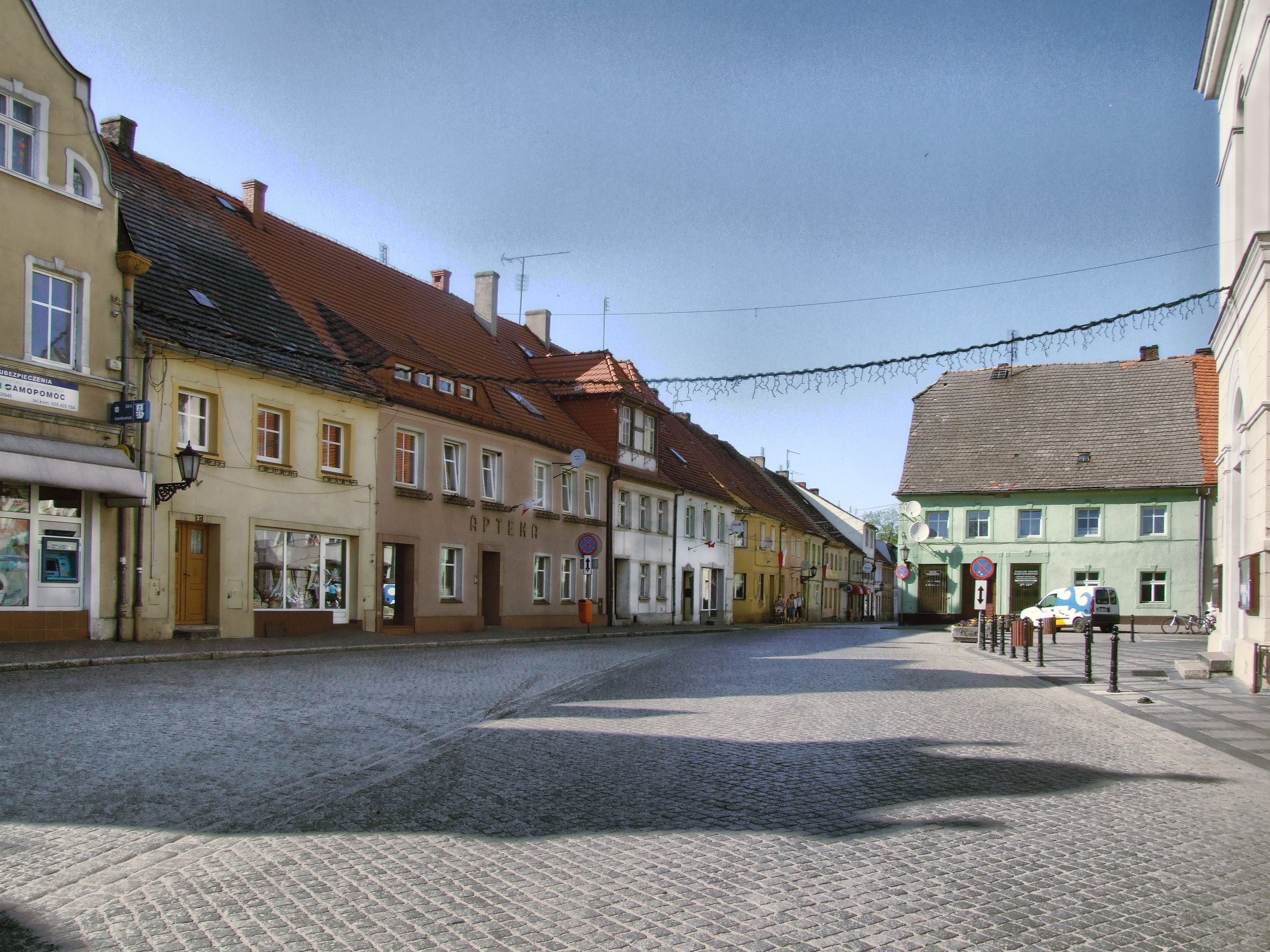 The south-east part of the marketplace in Sława, Poland